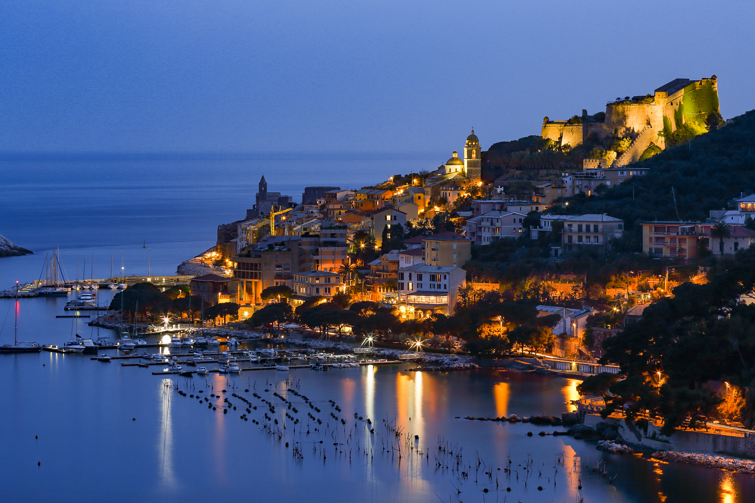 This is a photo of a monument which is part of cultural heritage of Italy.